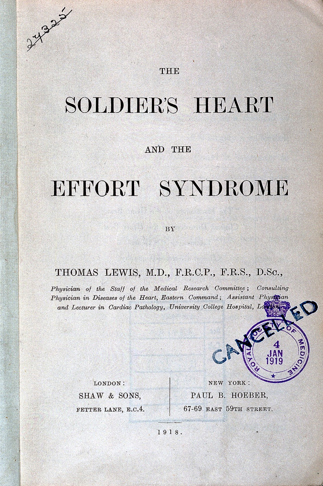 Title page. General Collections